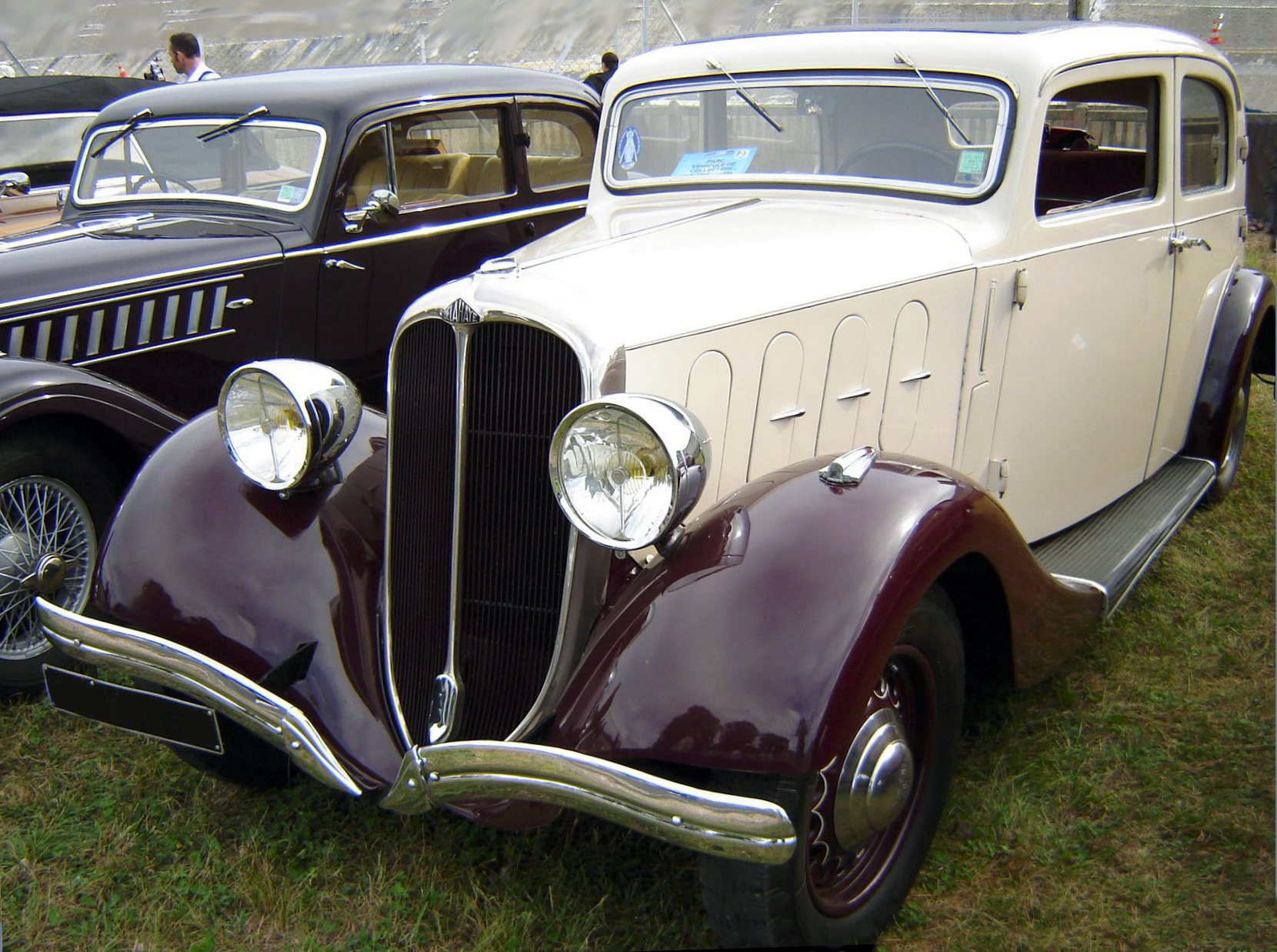 1935 Delahaye 134 Berline with Autobineau bodywork at Montlhéry 2009